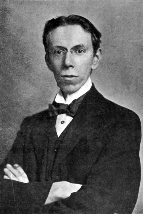 Image of John Freeman in The Bookman Vol. 57 (December 1919, p. 104).